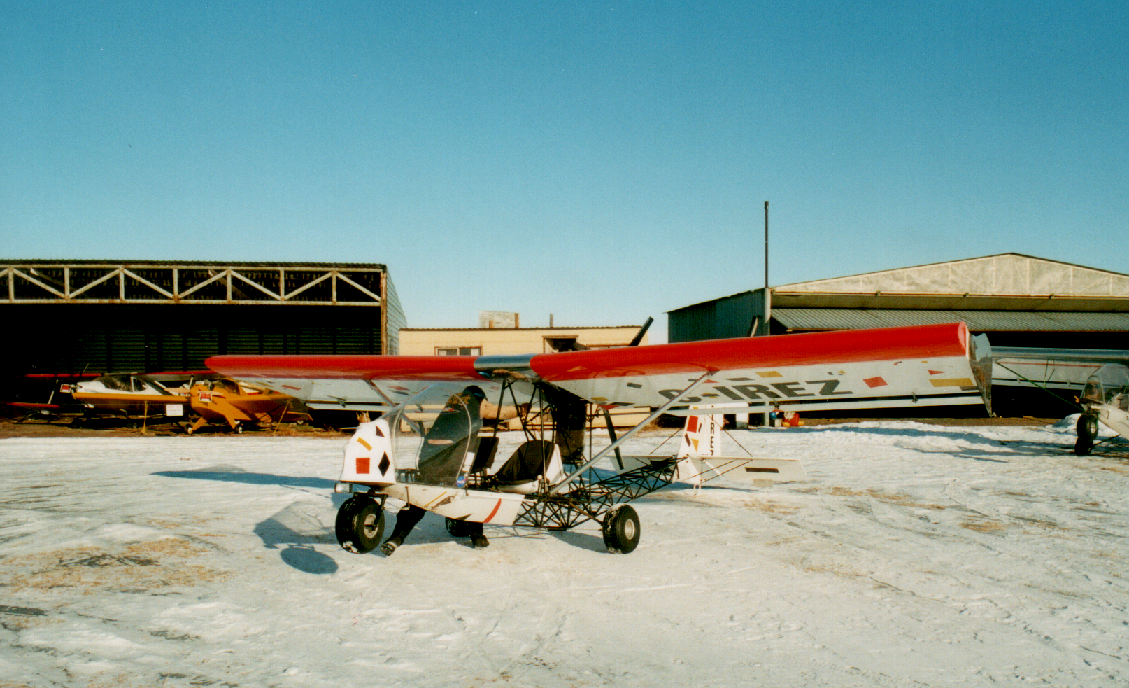 Blue Yonder EZ Flyer C-IREZ at Indus Alberta 1998